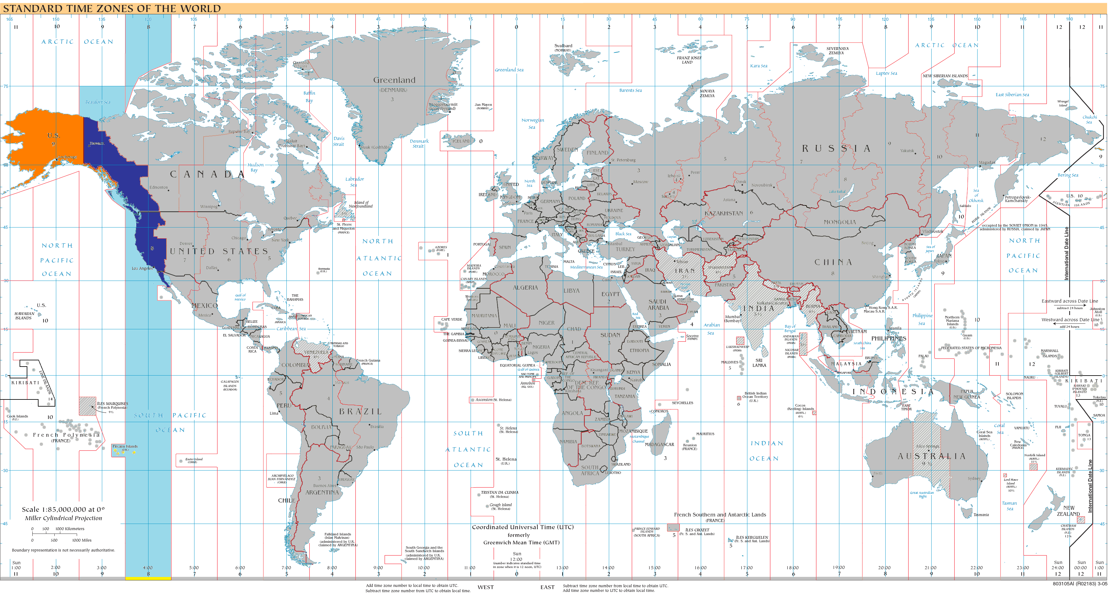 World map of time zones as of 2008, on the Miller Cylindrical Projection and with highlighted UTC-8 zone.